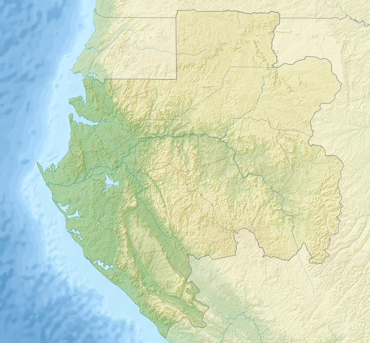 Relief location map of Gabon. Projection: Equirectangular projection, strechted by 100.0%. Geographic limits of the map: N: 2.5° N S: -4.0° N W: 8.0° E E: 15.0° E GMT projection: -JX20.32cd/18.86857142857143cd GMT region: -R8.0/-4.0/15.0/2.5r GMT region for grdcut: -R8.0/-4.0/15.0/2.5r Relief: SRTM30plus. Made with Natural Earth. Free vector and raster map data @ .